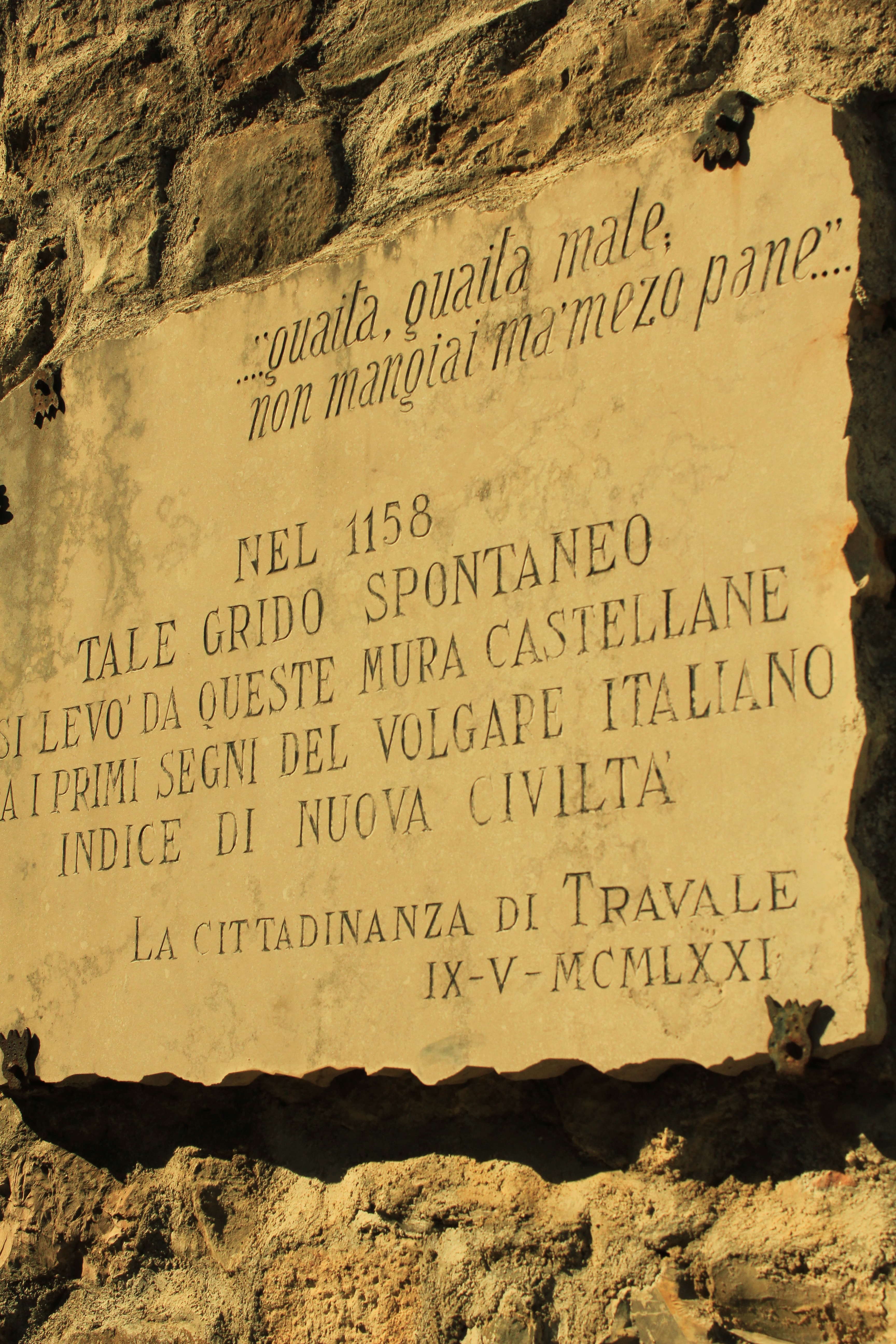 Travale inscriptions